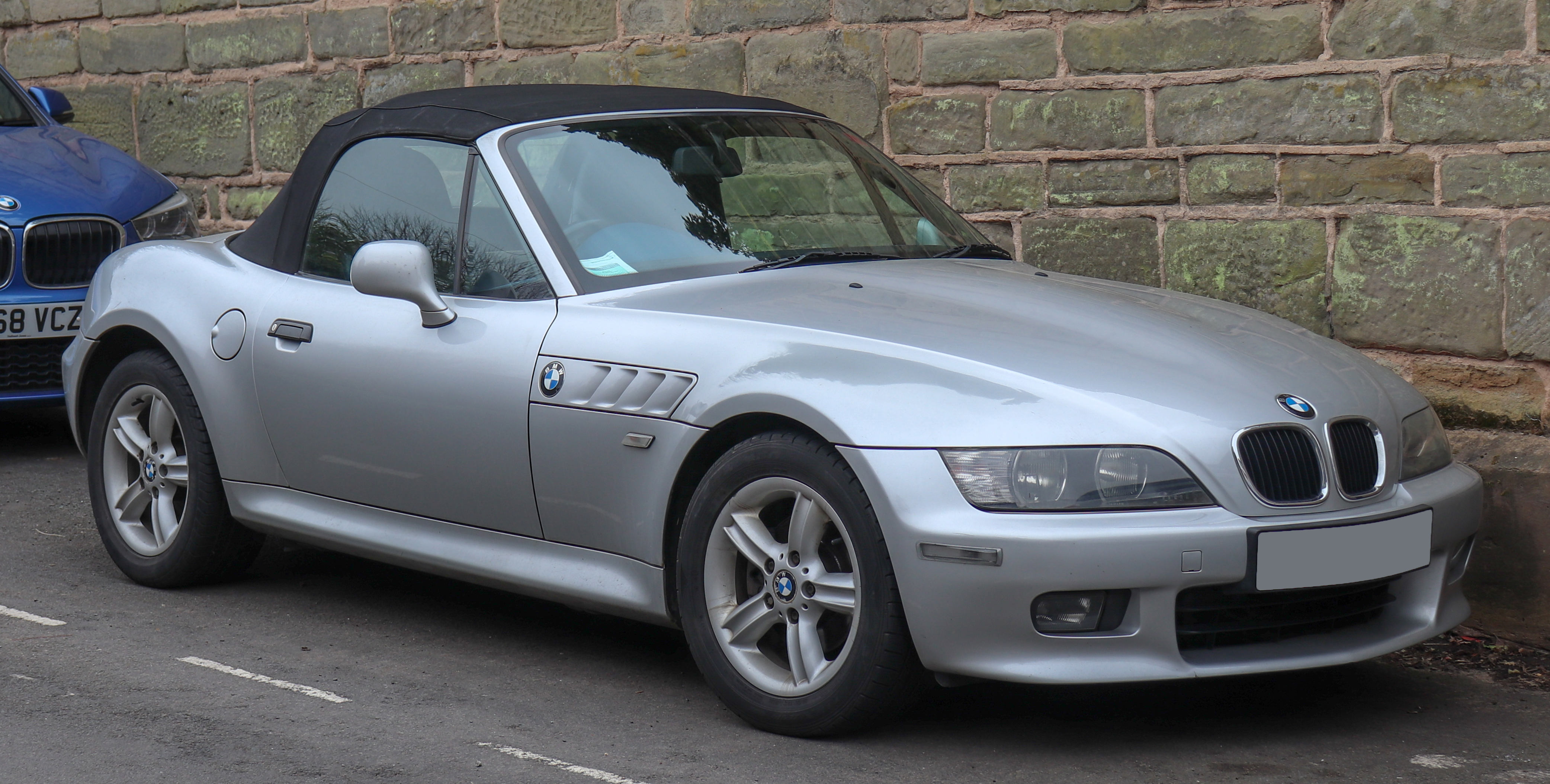 2001 BMW Z3 Roadster Automatic 2.2 Front Taken in Warwick